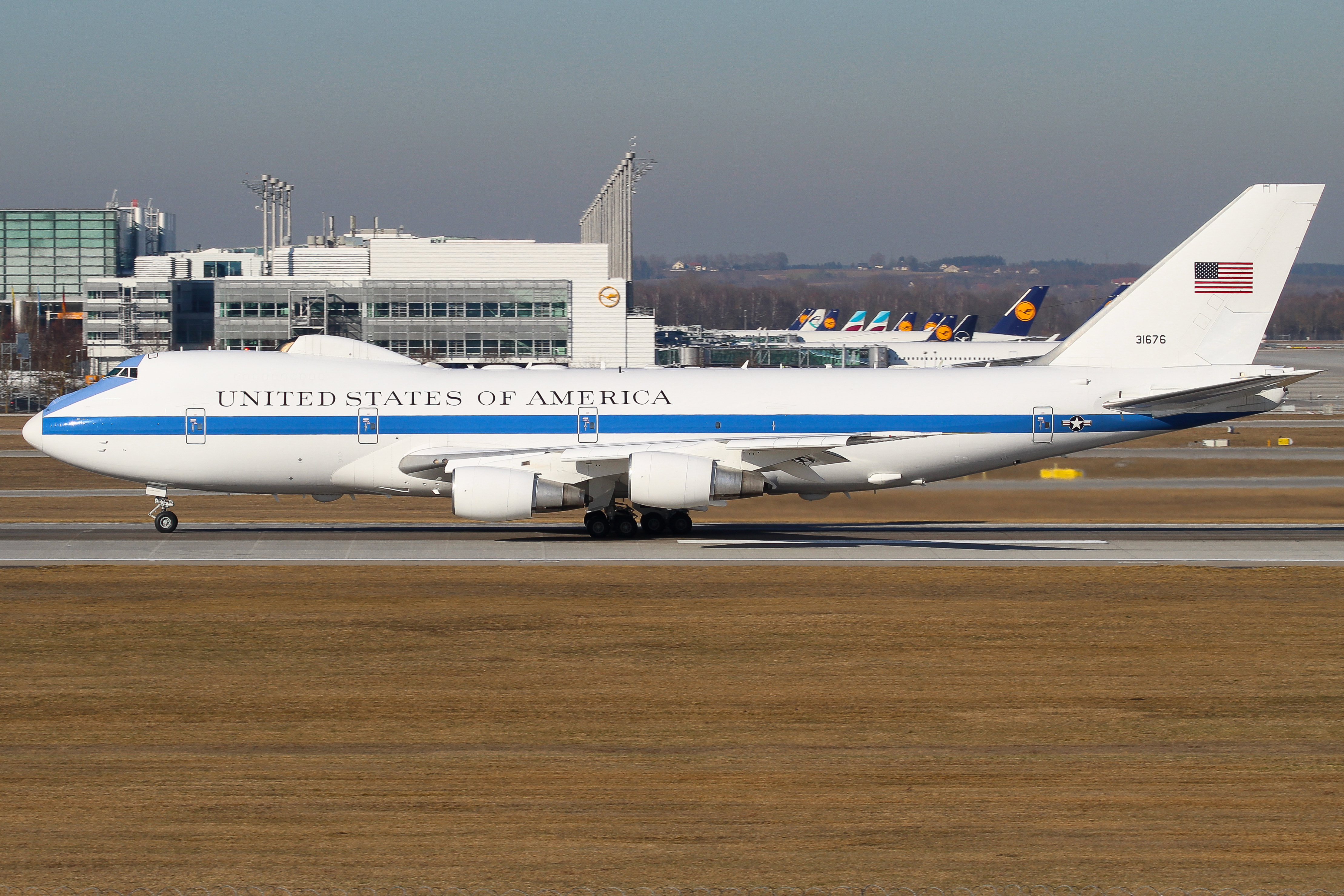 US Air Force Boeing E-4 at Munich Airport.